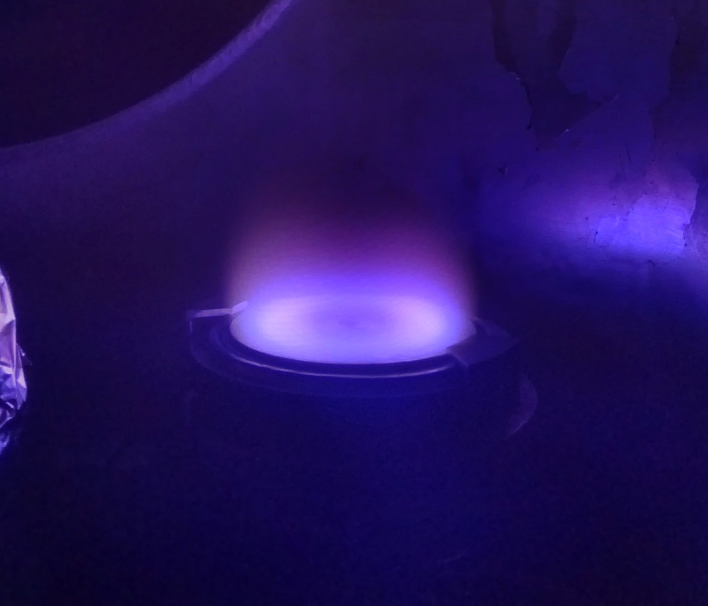 Magnetron sputtering system (magnetron)